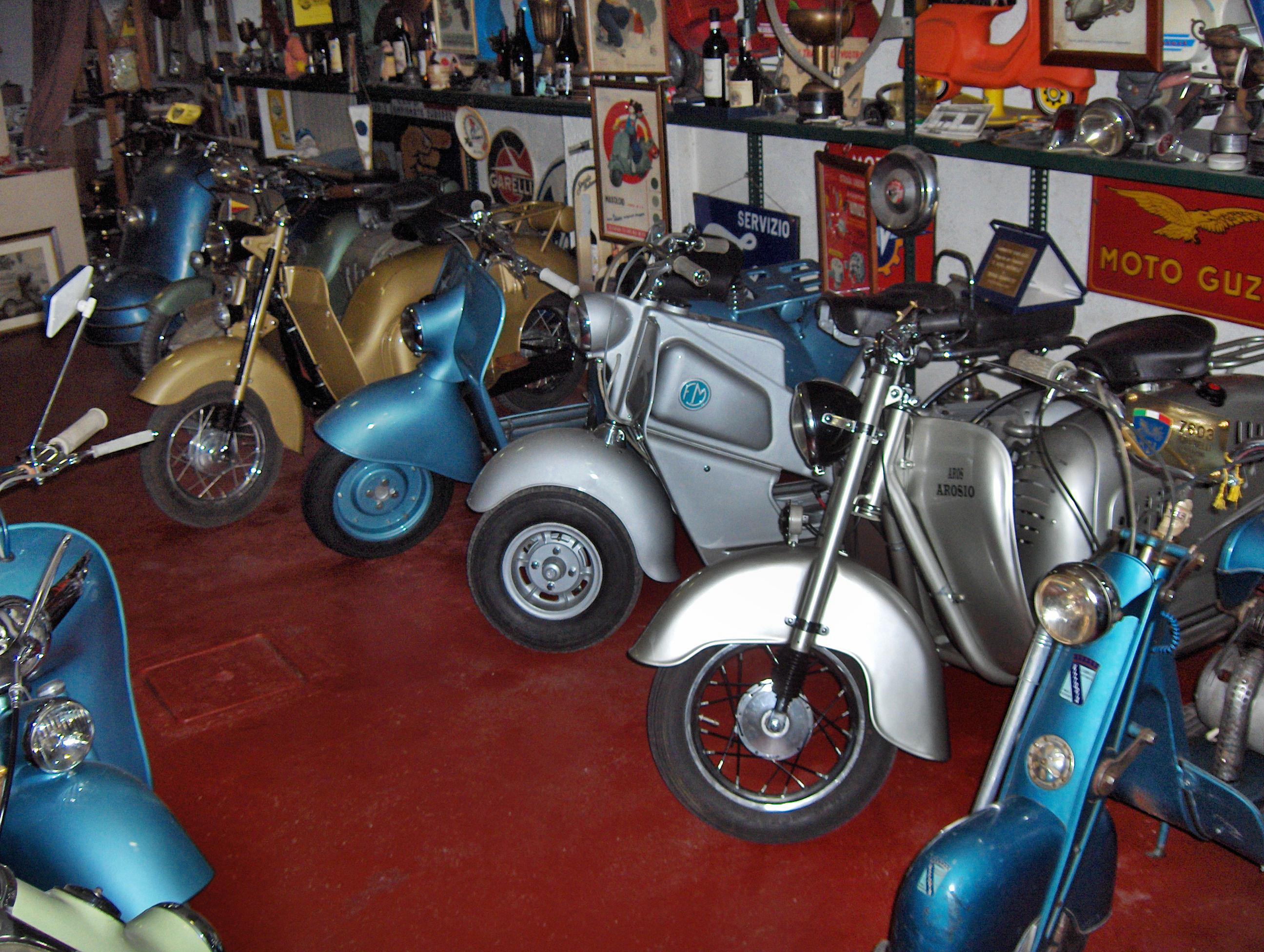 Historic scooters in the private scootermuseum, Assisi, Italy